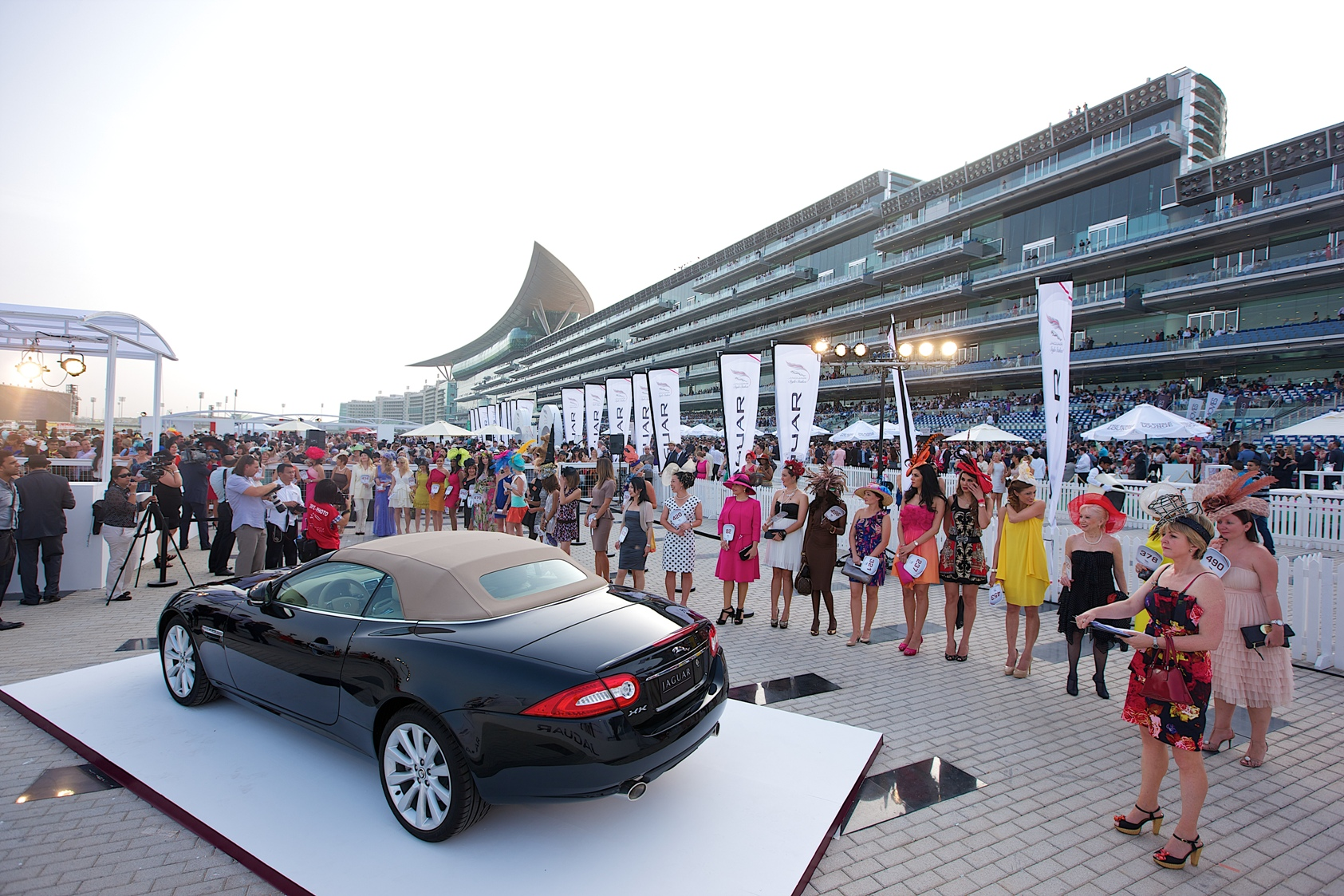 Jaguar Style Stakes | Dubai World Cup 2012